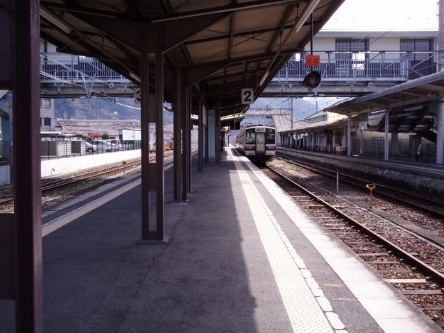 West Japan Railway Hakubi Line Bitchū-Takahashi Station platform, looking toward Kurashiki Station 西日本旅客鉄道 伯備線 備中高梁駅 駅ホーム